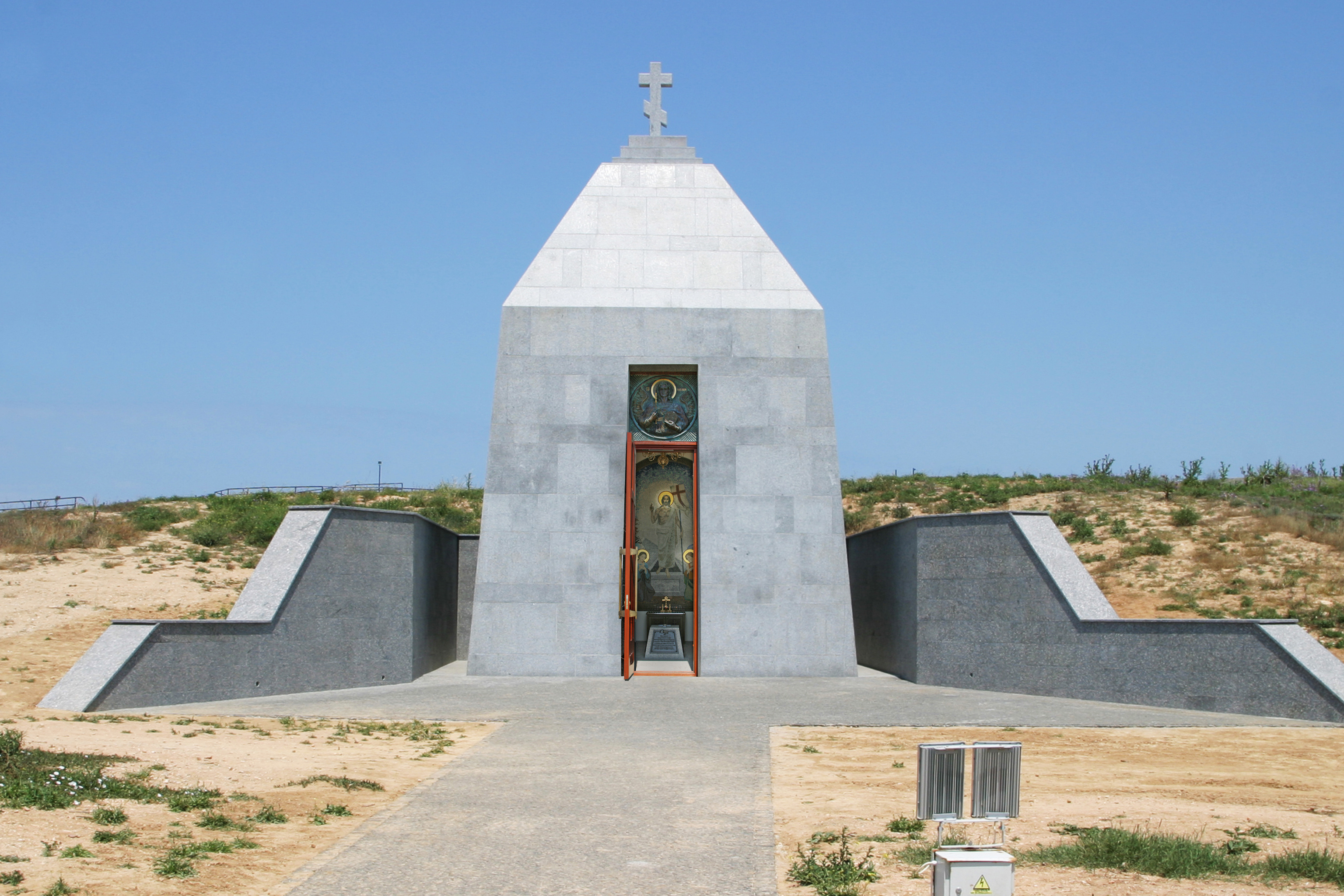 35th Coast Battery, Sebastopol